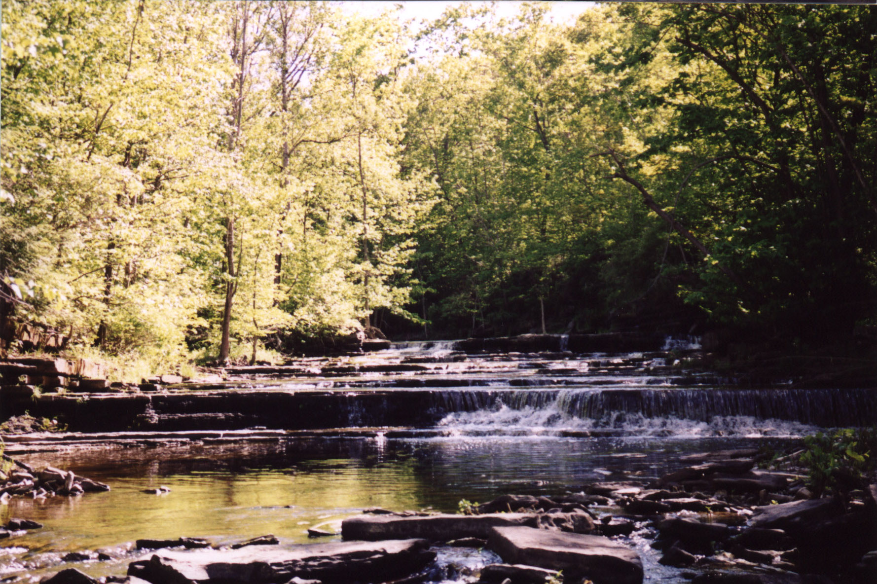 Normanskill Creek flowing over small sandstone falls near the town park